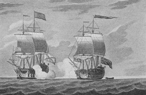 HMS Centurion